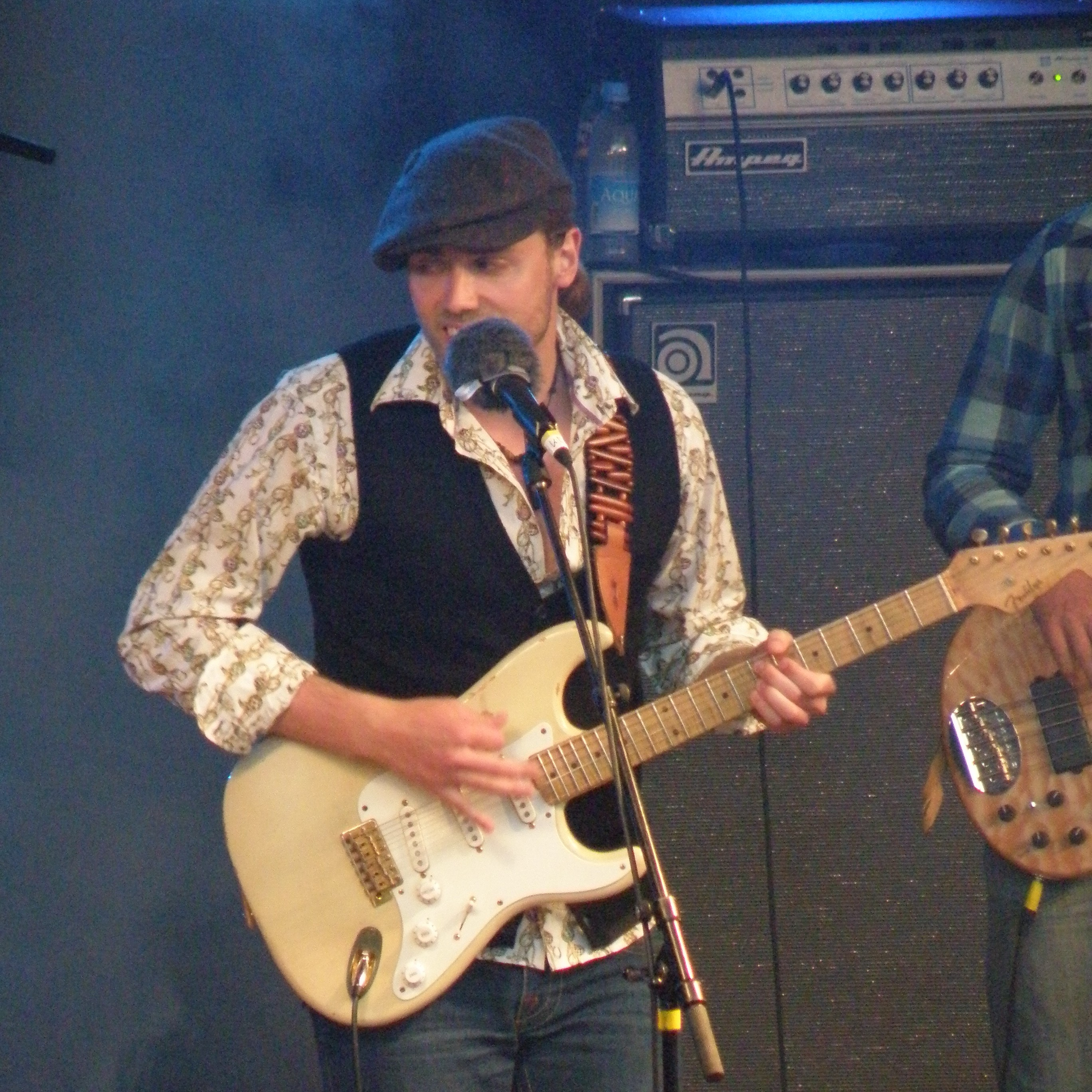 Uni Reinert Debess is a Faroese singer, songwriter, composer and musician from Tórshavn. He works mainly with blues and jazz music. He has been a singer and guitar player with several Faroese bands; he became well known in the Faroe Islands with his band Go-Go Blues in 2004, and in 2005 when the band won the Prix Føroyar music contest. Later Uni R. Debess has been a singer and guitar player with the band Crawling Blue as well as with other bands too. He sometimes performs together with Tróndur Enni and sometimes with his uncle Edvard Nyholm Debess. This photo was taken at the Jóansøka Festival (Jóansøkufestivalurin or Midsummer Festival) in Tvøroyri in Suðuroy, Faroe Islands on 27 June 2009. Føroyskt: Uni Reinert Debess er føroyskur sangari, guitarleikari, sangskrivari og tónleikasmiður. Hann fæst mest við blues og jazz tónleik. Uni hevur spælt við fleiri orkestrum, m.a. Go-Go Blues, sum vann Prix Føroyar í 2005 og seinni við Crawling Blue. Uni framførir eisini saman við einum øðrum tónleikara, t.d. við Tróndur Enni av Tvøroyri og onkuntíð við pápabeiggja sínum Edvard Nyholm Debess. Uni er havnarmaður, sonur Per Debess, sála, sum eisini var tónleikari.